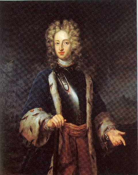 Portrait of Frederick IV, Duke of Holstein-Gottorp (1671-1702)